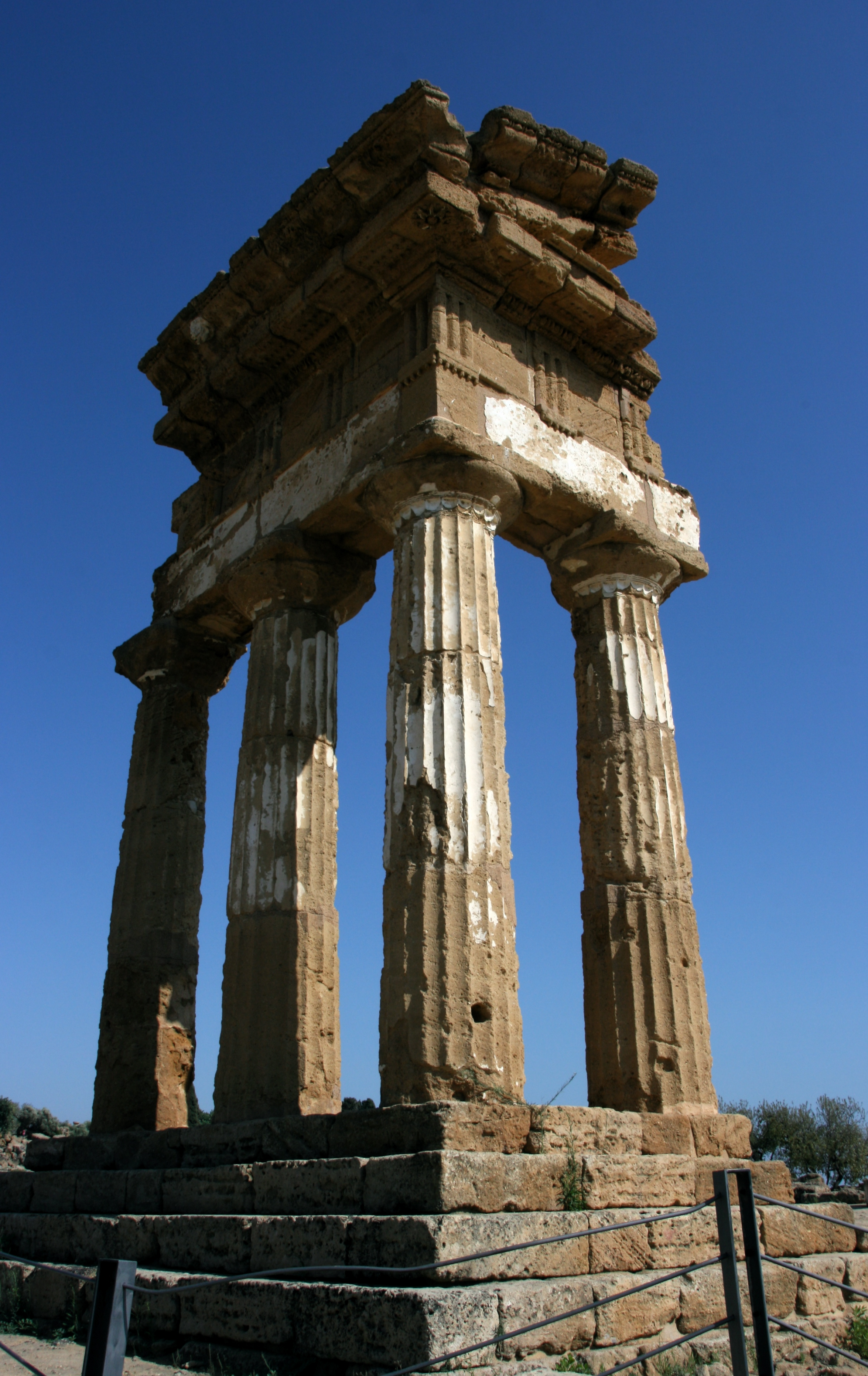 Temple of the Dioscures, Agrigento, Sicily